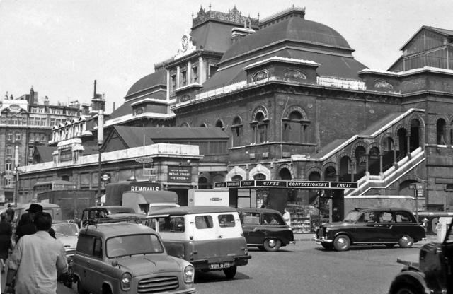 Broad Street Station, entrance, View NW from Liverpool Street, to entrance of Station; ex-North London Railway City terminus of suburban lines from Dalston Junction, Willesden Junction, Watford Junction etc., Richmond and (until 5/44) Poplar. Broad Street Goods station was closed 27/1/69, then, after the last services had been diverted for a year into adjoining Liverpool St., Broad Street terminus and the lines from Dalston West Junction were closed completely on 30/6/86 and the Broadgate office development built on the site.